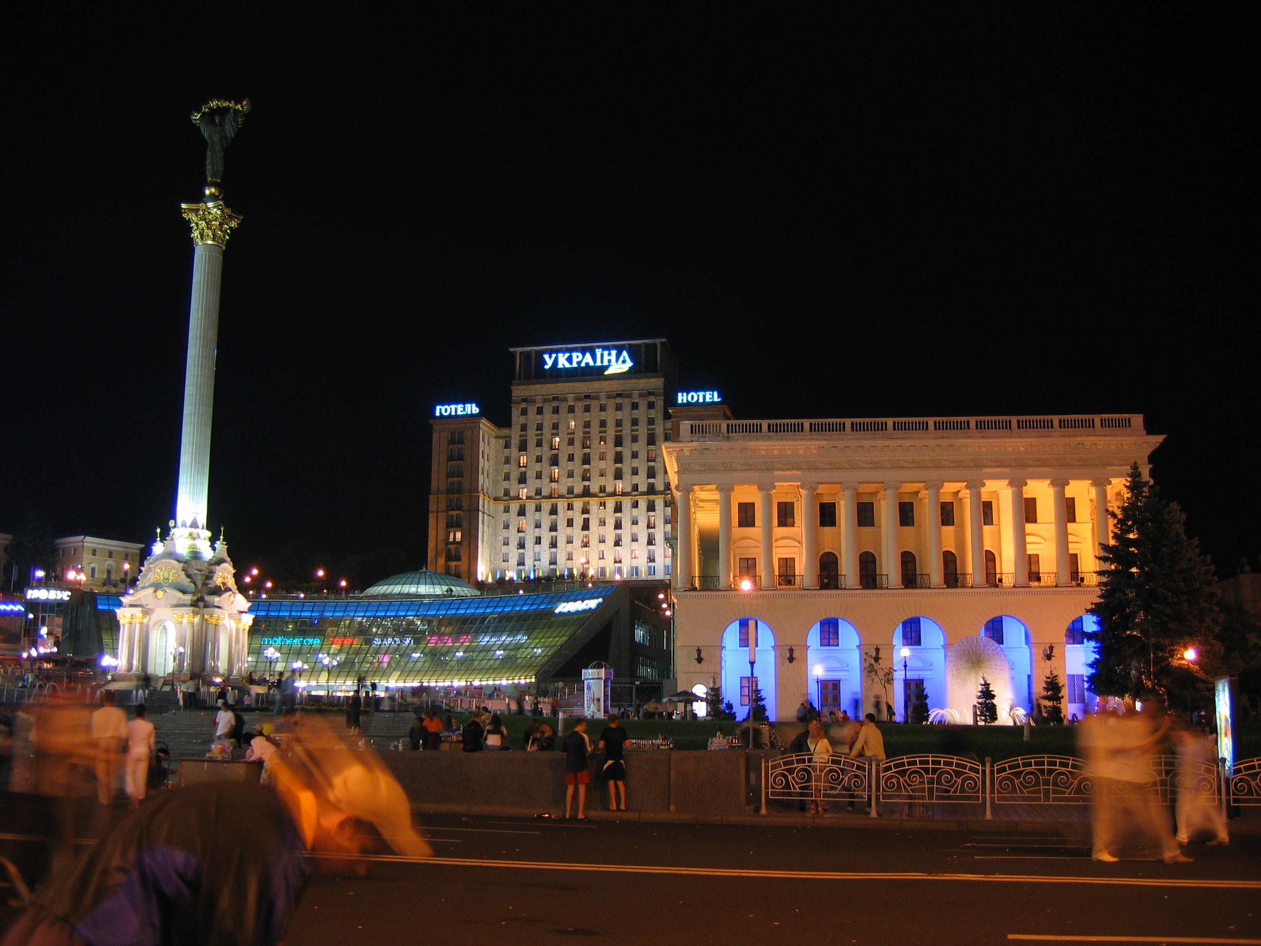 Maidan Nezalezhnosti / Independence Square in Kiev, Ukraine, night view